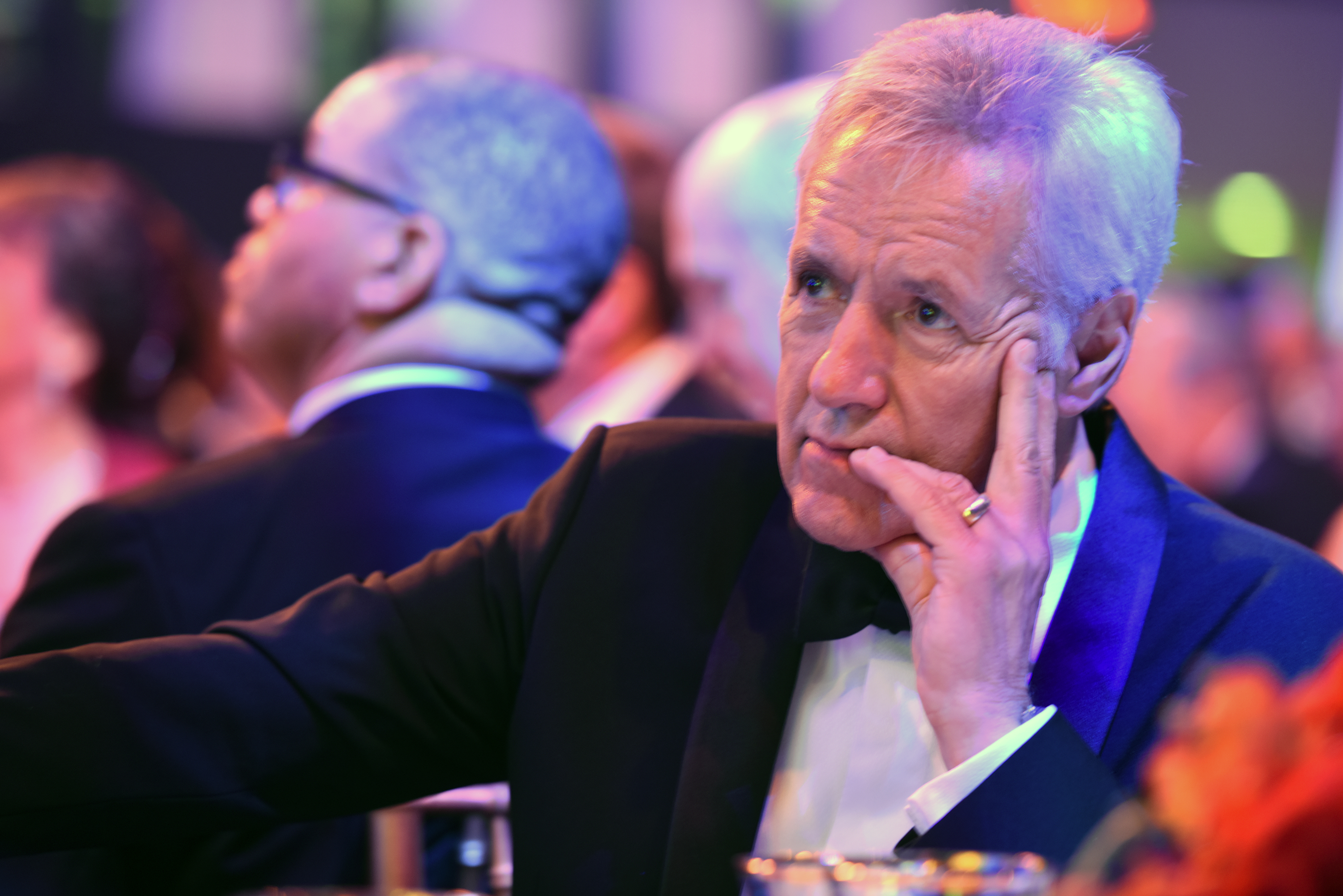 "Jeopardy!" host Alex Trebek at the 2016 USO Gala, Washington, D.C., Oct. 20, 2016. (U.S. Army National Guard photo by Sgt. 1st Class Jim Greenhill)